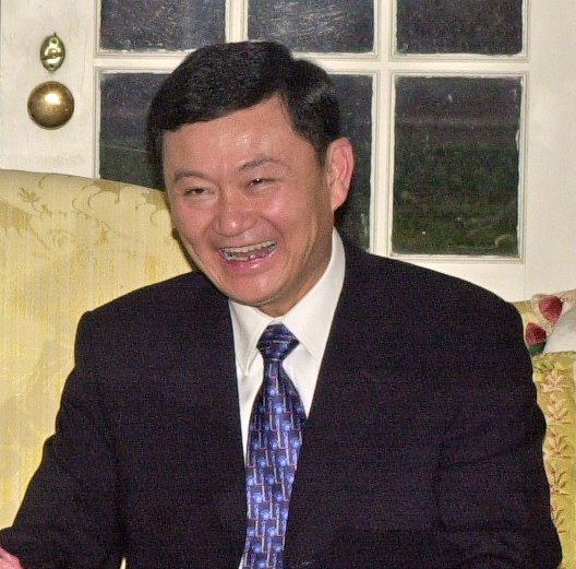 40_CFD_OS_2002_1201_44_756.JPG], 12/14/2001